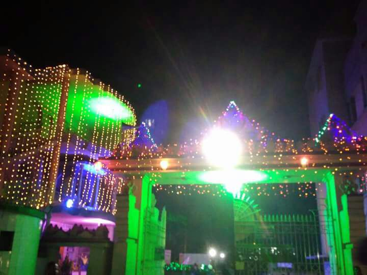 Main entrance gate of Baranagore Ramakrishna Mission Ashrama High School